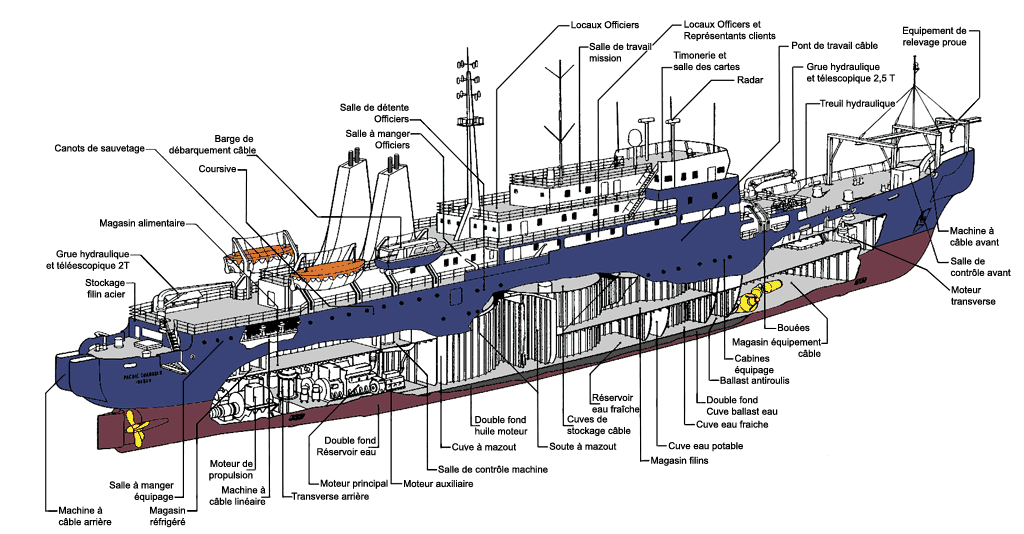 Cable Ship description